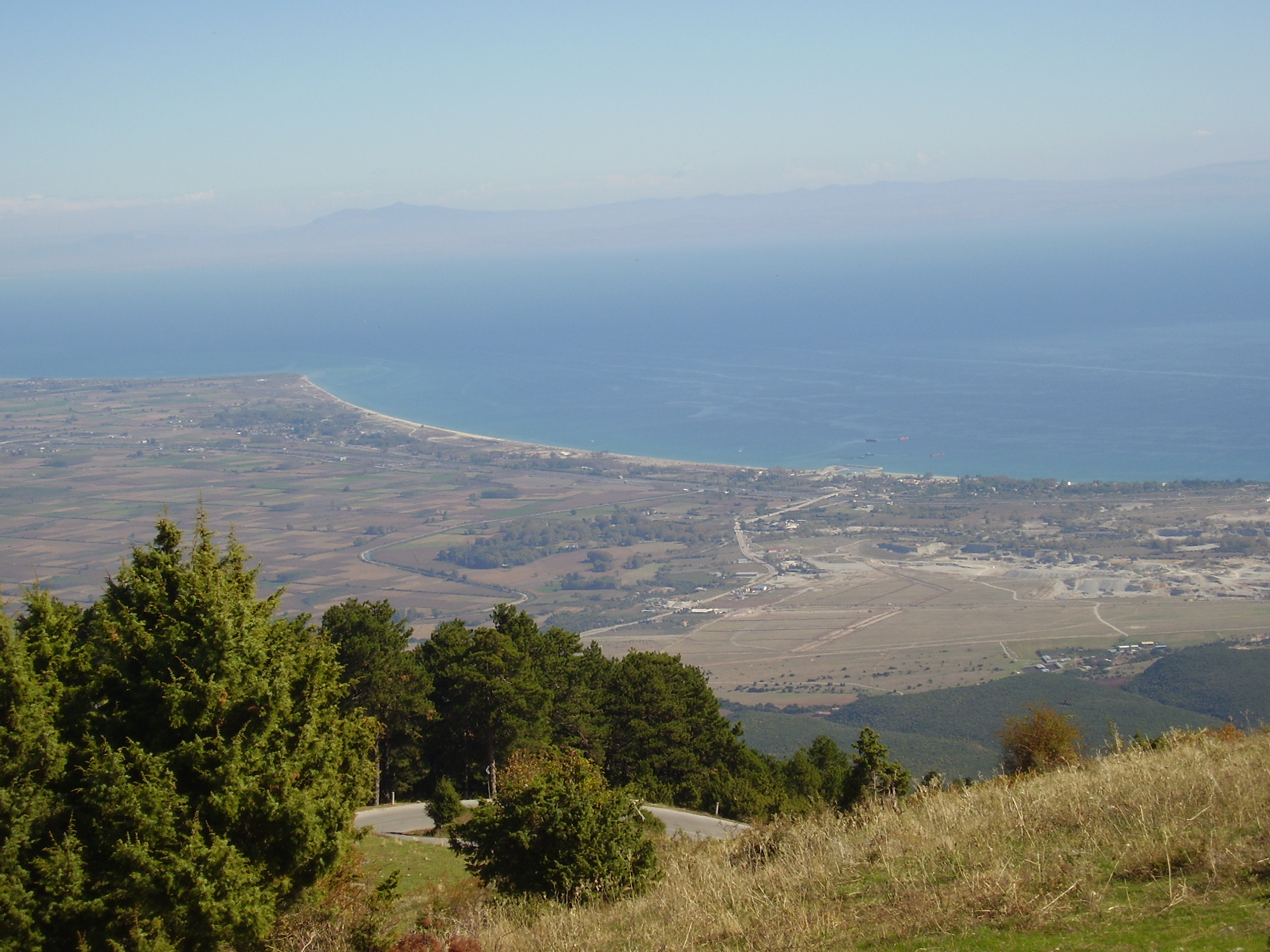 The view on the Aegean Sea from the Mount Olympus